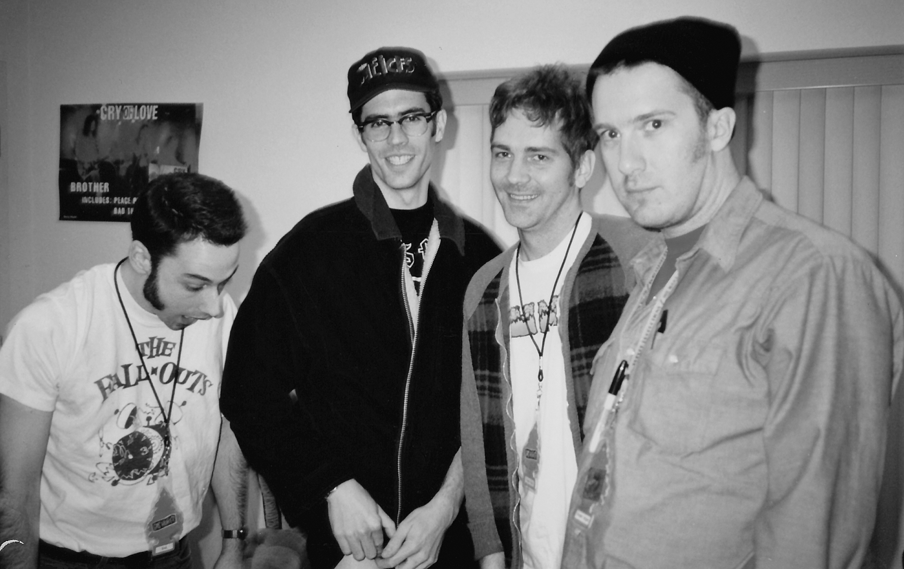 Gas Huffer in 1994. Photo by Shawn Merrill.